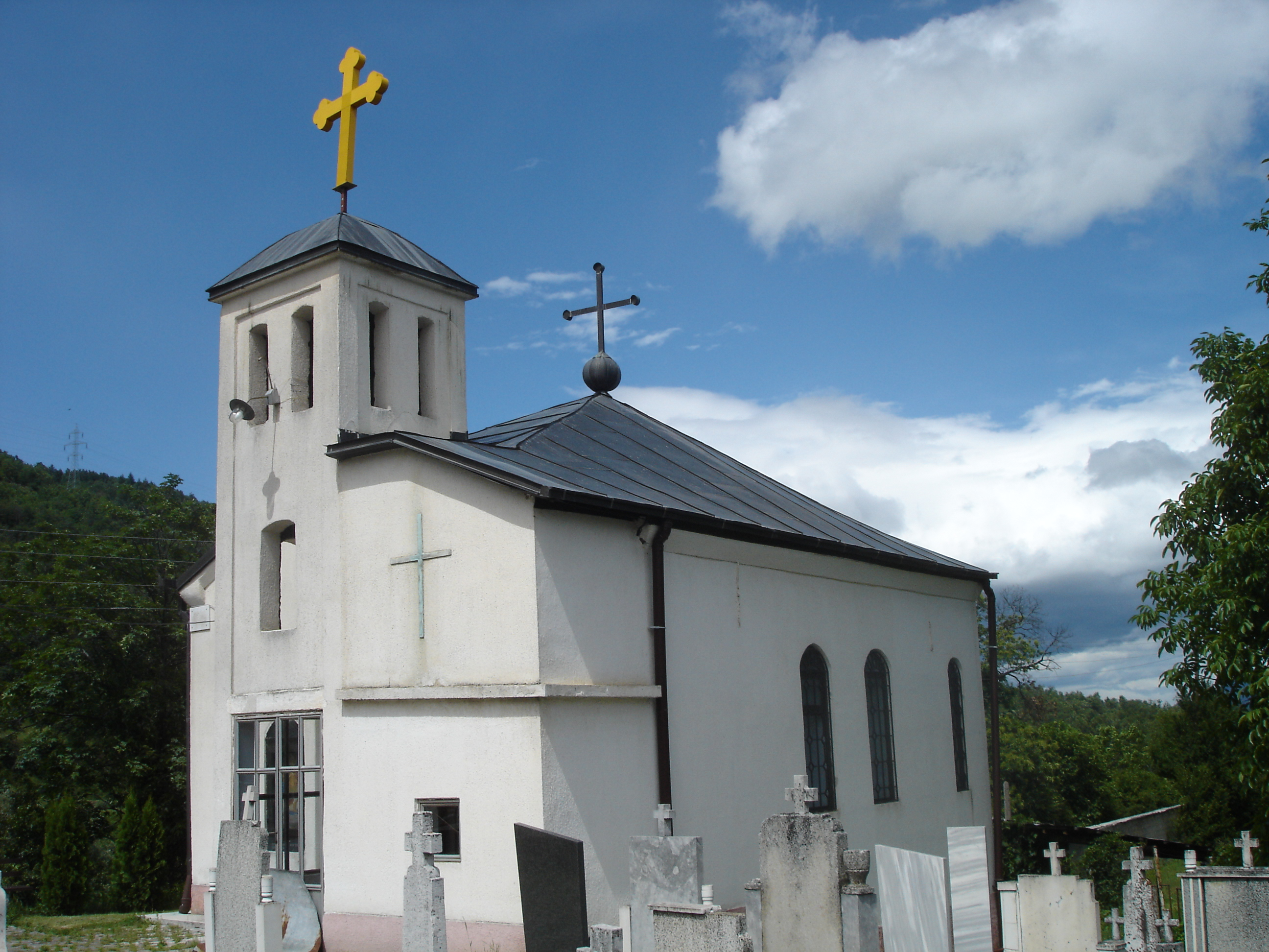 Church in village of Vrutok, Macedonia